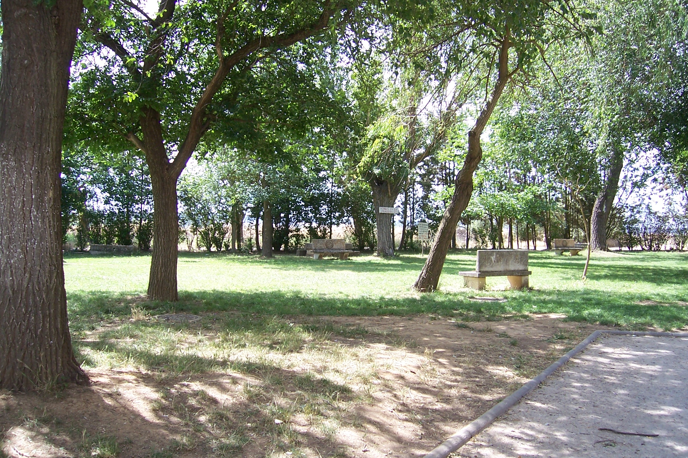 Hermitage of Castilviejo (Medina de Rioseco in Valladolid, Spain). Field for pilgrimages.